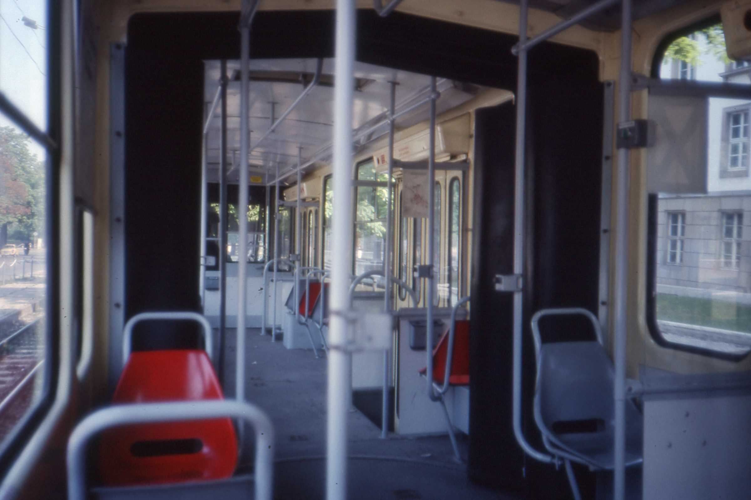 Interior of Tatra KT4D tram in Erfurt, former East Germany